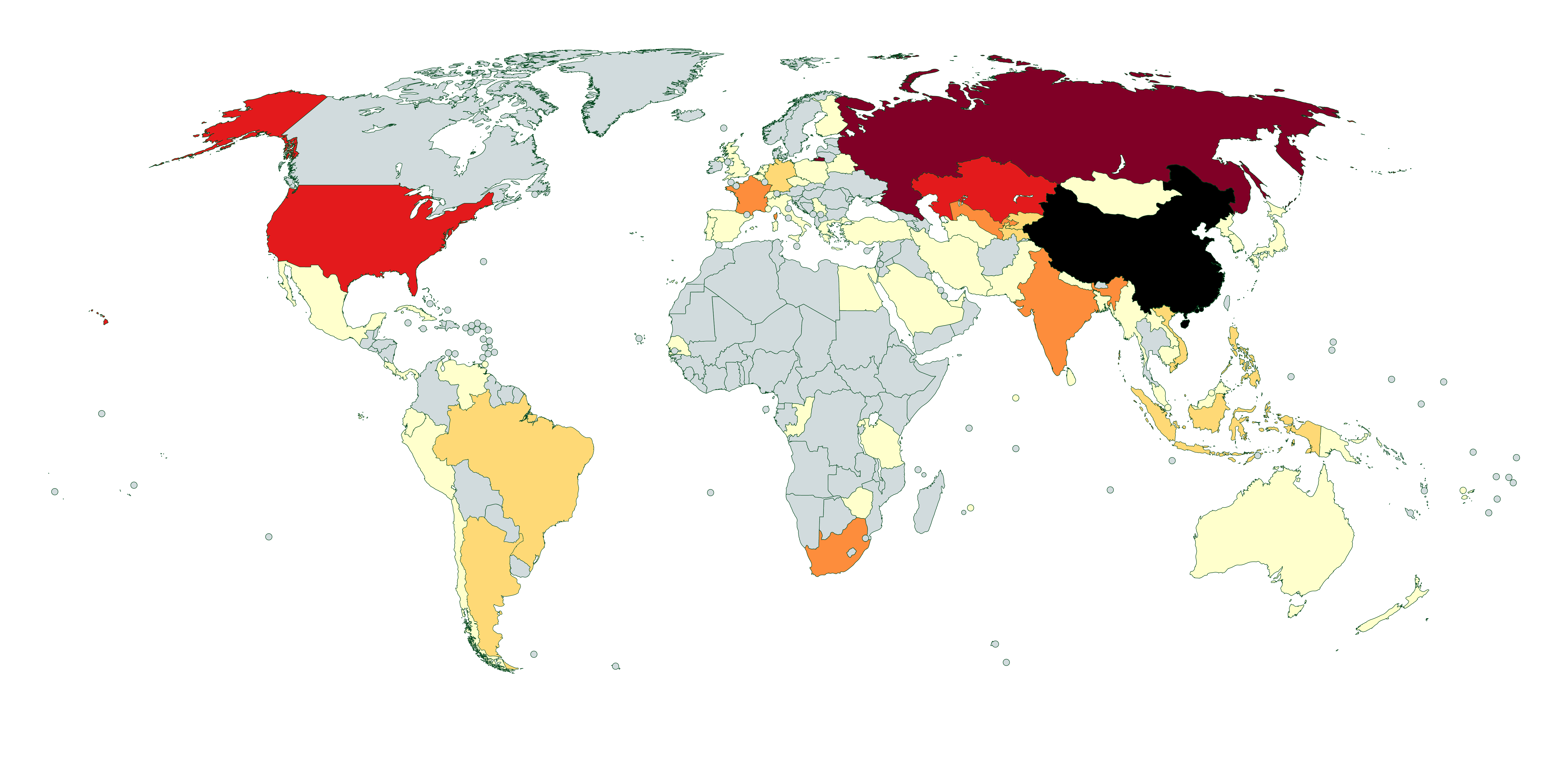 This map was created with GunnMapGunnMap was created by Arthur Gunn and is available, free, at and attribute by linking to Foreign trips of Chinese President Xi Jinping China Countries visited by Xi